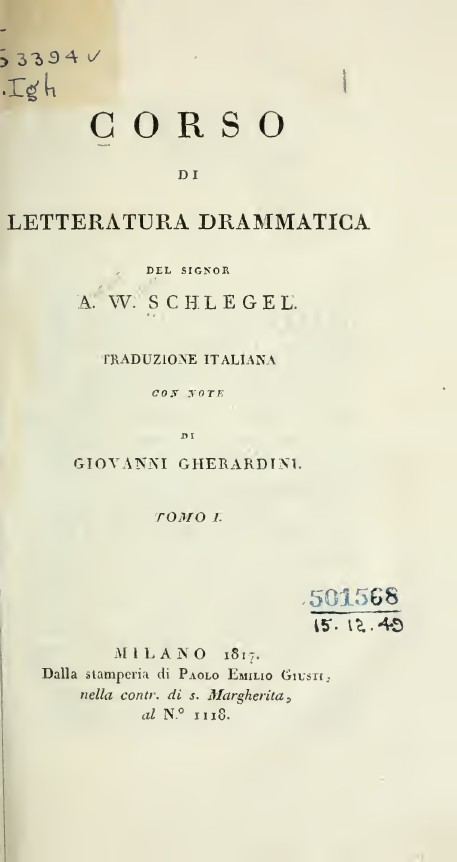 Title page